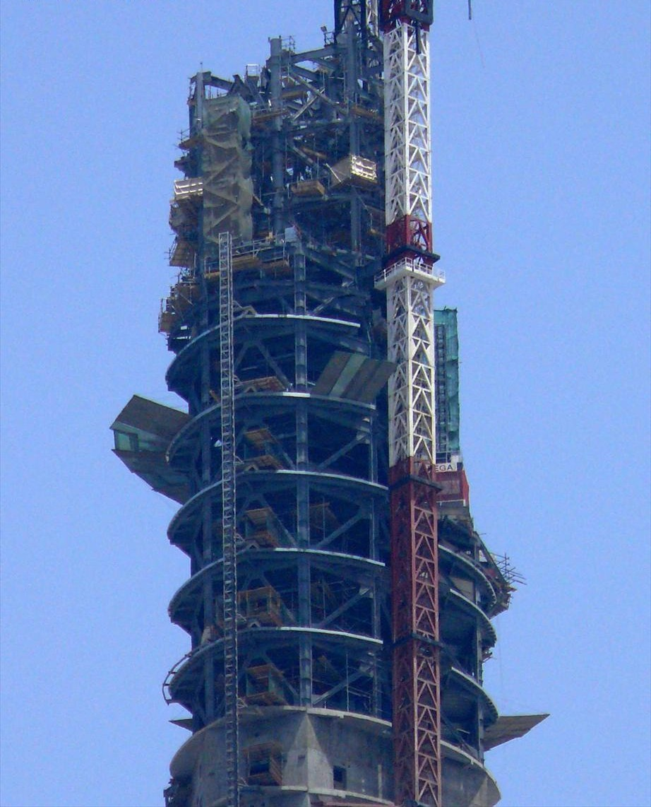 This is a photo showing the top of the Burj Khalifa, located in Dubai, United Arab Emirates, during construction on 16 May 2008. The concrete section can be seen at the bottom of the image, just below where the steel section begins.